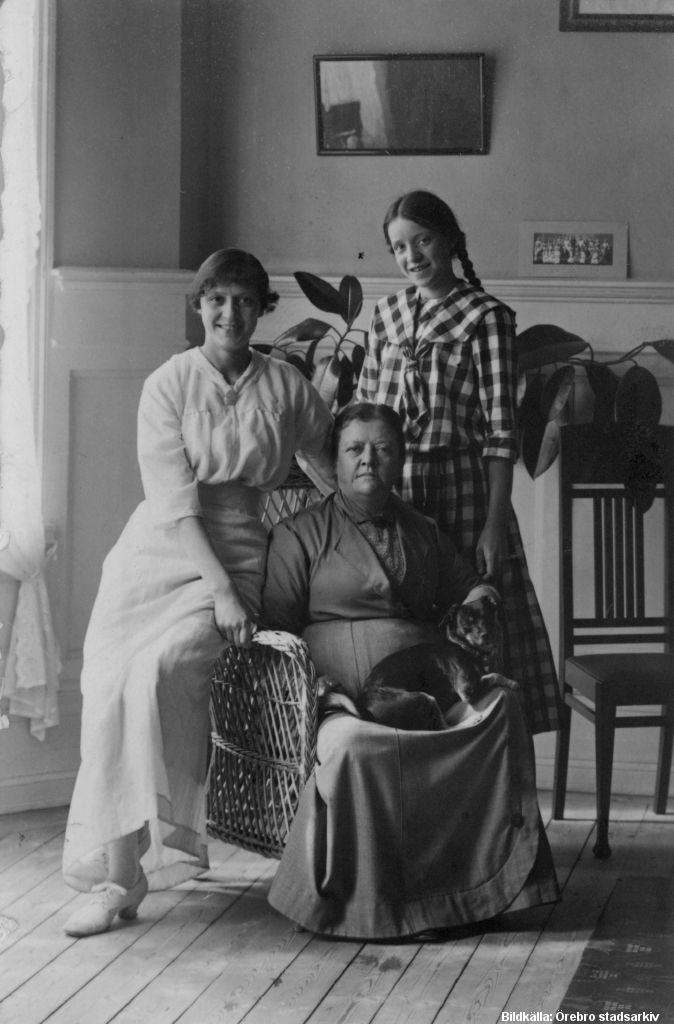 Olga Ehrenmark (born 1896), mother Berta Ehrenmark (born 1864), Margit Ehrenmark (born 1902). Relatives to writer Torsten Ehrenmark.